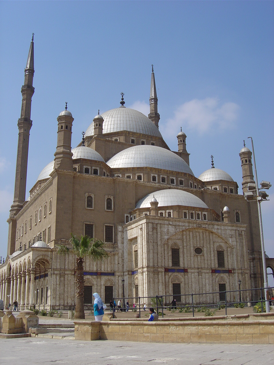 Muhamed Ali Mosque in the Citadel, Cairo Egypt